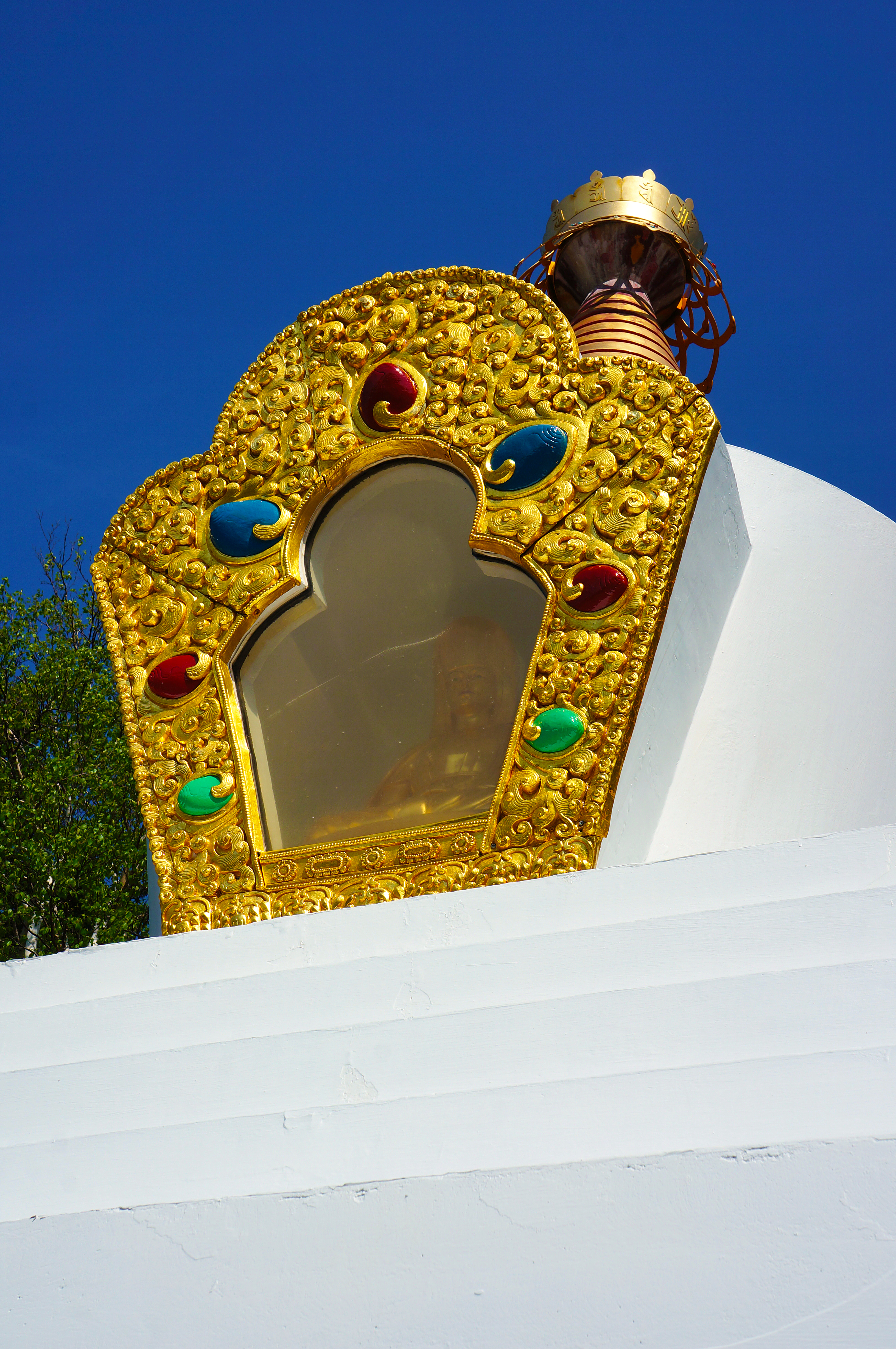 Detail of Stupa of Enlightenment housing some relics of Chögyam Trungpa, Gampo Abbey, Nova Scotia, Canada.